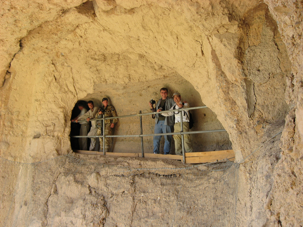 This is from the top side openings from the Buddhas head.